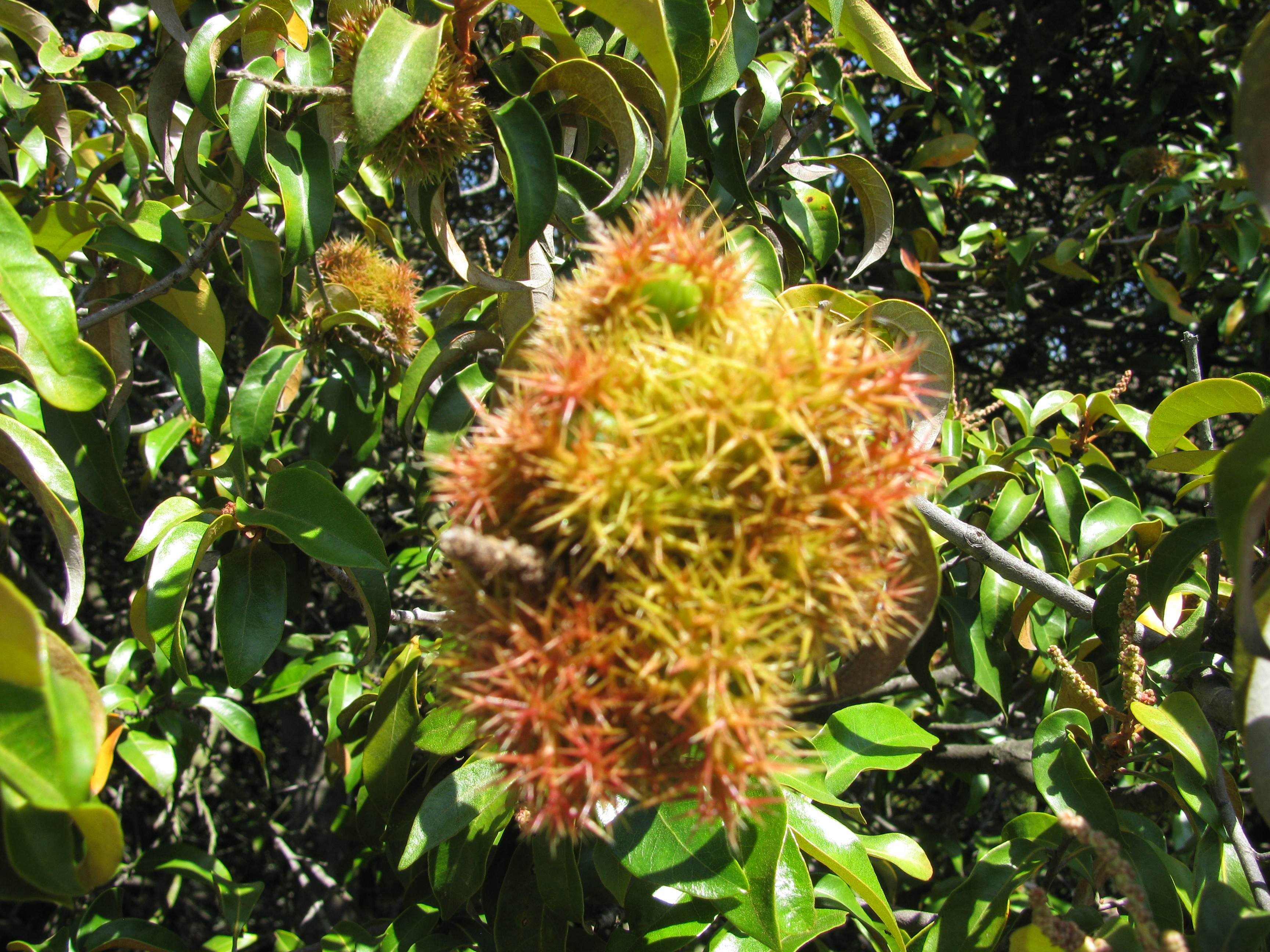 Chrysolepis chrysophylla (Golden Chinquapin). At the Huckleberry Botanic Regional Preserve, in the Berkeley Hills, Northern California.